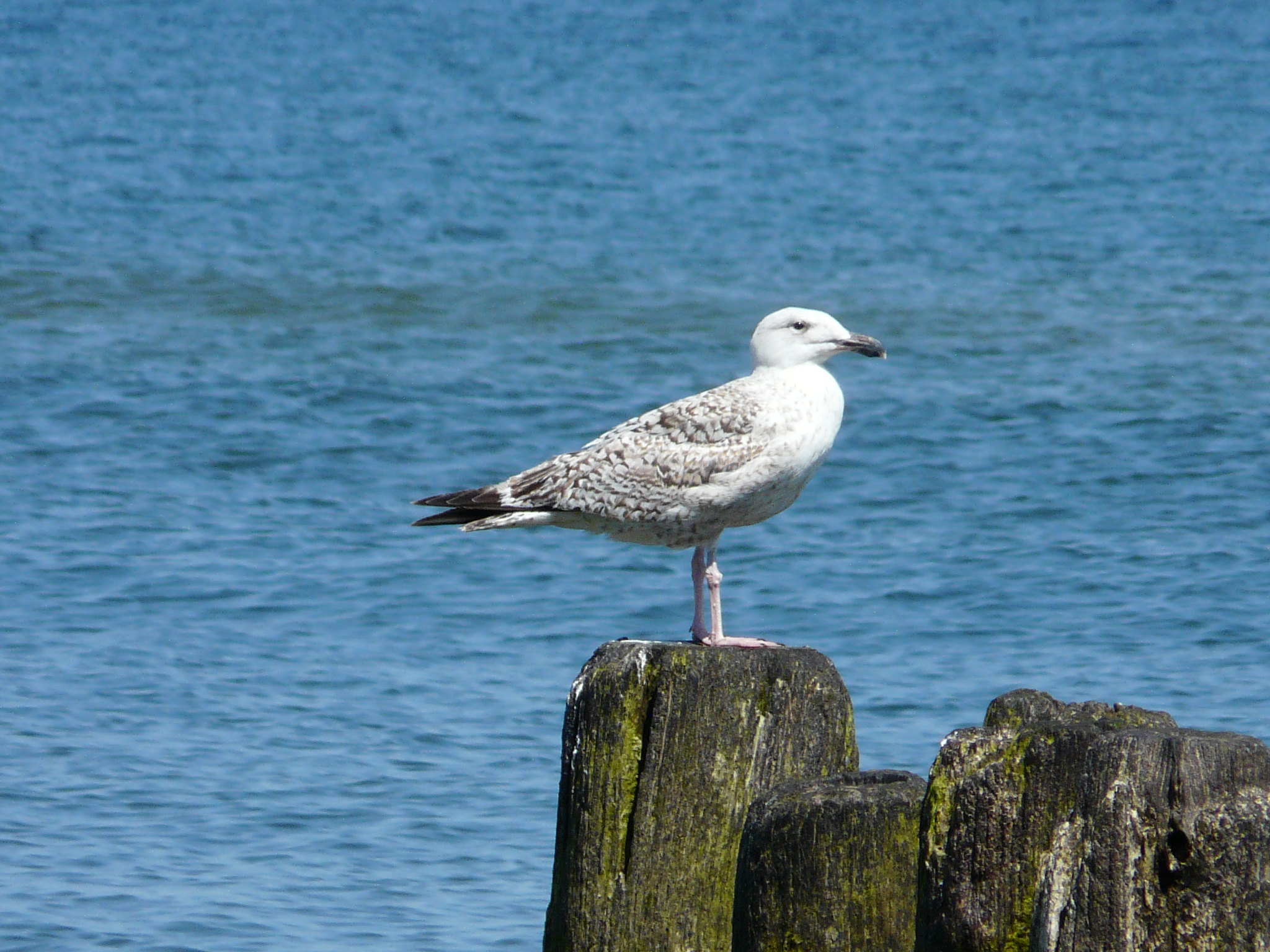 Animals at Polish Baltic coast, mostly near Niechorze.